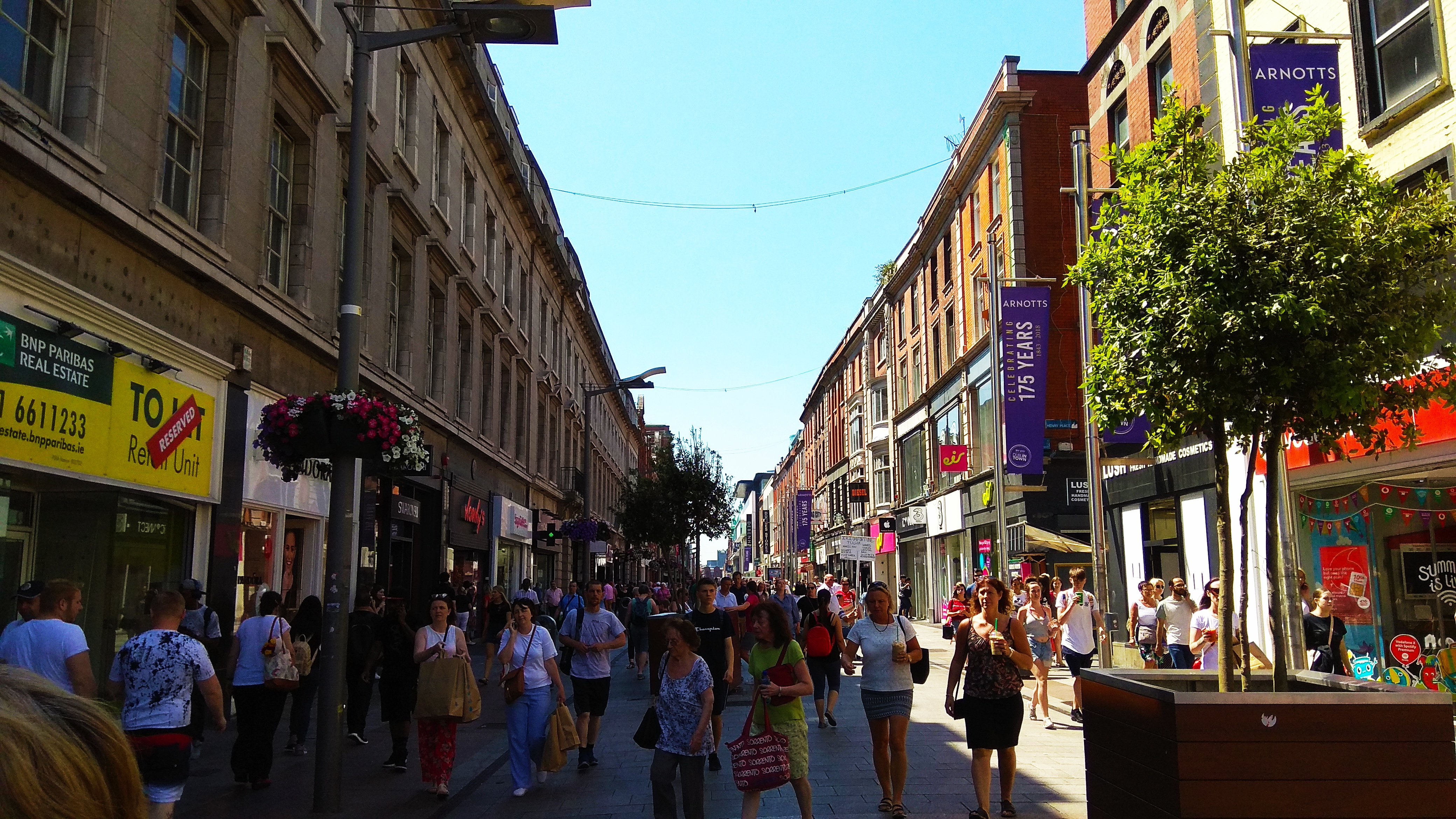 Henry Street, Dublin